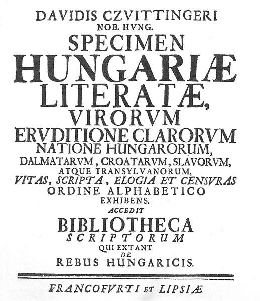 Czvittinger Dávid Hungariae Literatae (book cover)